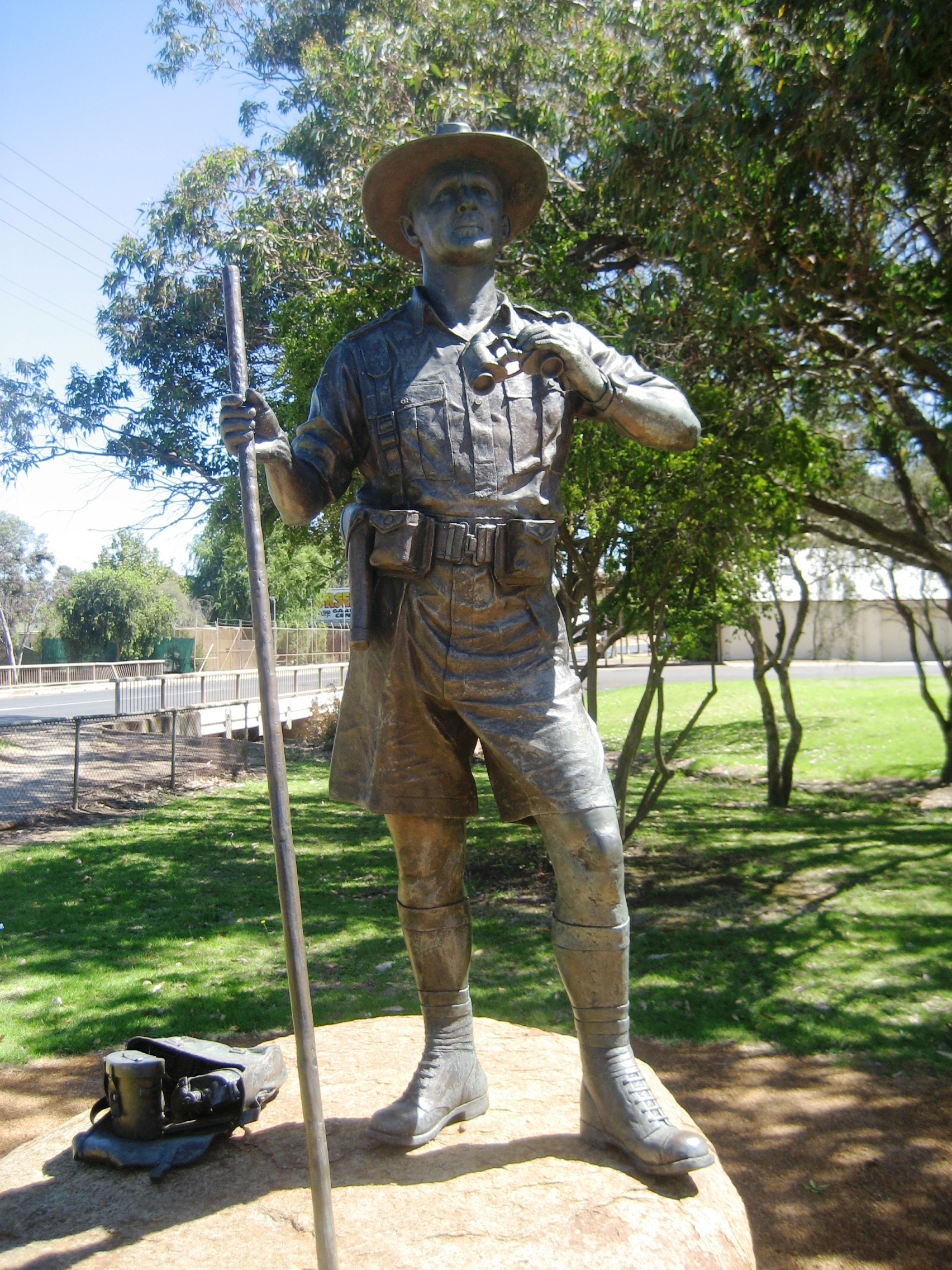 Public art - Brigadier A.W. Potts, Kojonup, Western Australia See also File:Public art - Brigadier A.W. Potts, Kojonup, plaque.jpg